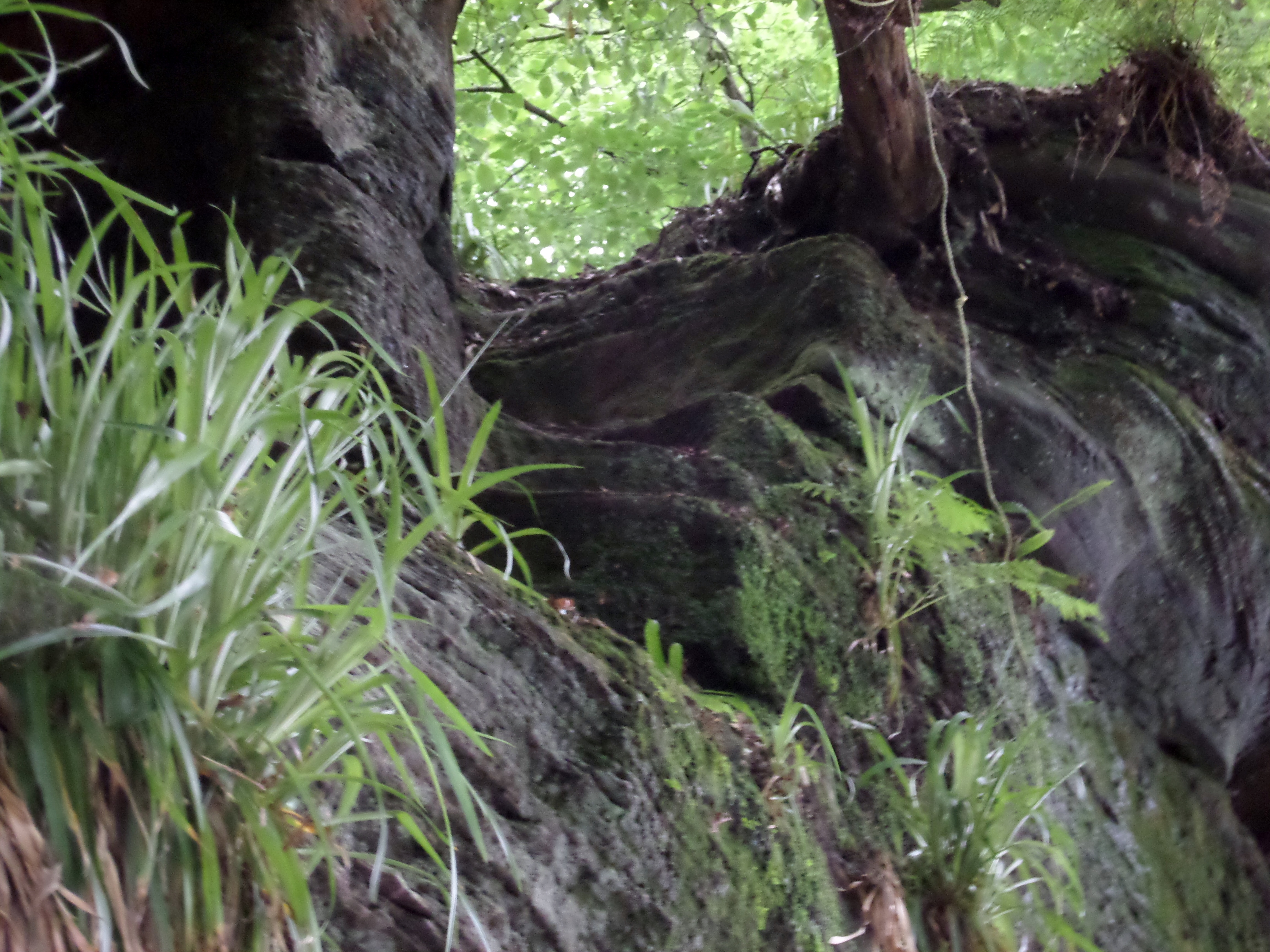 Peden's Cave steps, River Lugar, Auchenbay, East Ayrshire, Scotland. Carved steps access.